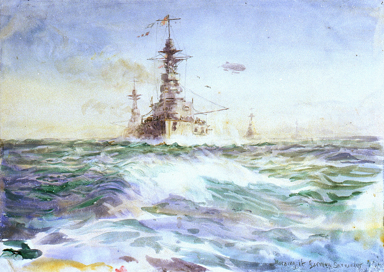 British battleships of the 1st Battle Squadron at sea on the morning of the German surrender, 21 November 1918 Inscribed by the artist, lower right, 'Morning of German surrender'. This study of R-class battleships of the 1st Battle Squadron of the Grand Fleet is apparently taken from its flagship, HMS 'Revenge', on which Wyllie was a guest of Admiral Sir Charles Madden for a month at the time of the surrender and internment of the German High Seas Fleet. That being so, the ships shown are 'Resolution' immediately following, 'Royal Sovereign' and 'Royal Oak'. The fourth ship distantly sen on the right is probably 'Emperor of India'. The squadron (preceeded by four light cuisers and four battle-cruisers), comprised the northern line of the escort as the German fleet sailed into the Forth. The airship shown is either NS7 or NS8, both of which were airborne for the surrender, and one of which filmed the German ships coming in: a resulting newsreel copy is in the Imperial War Museum, ref. IWM 637. Wyllie appears to show a rather brighter day than it was.